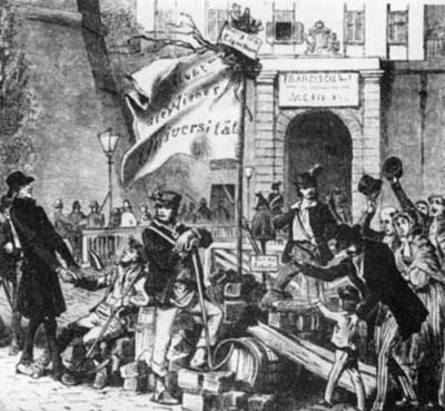 Viennese students in the streets during the 1848 revolution